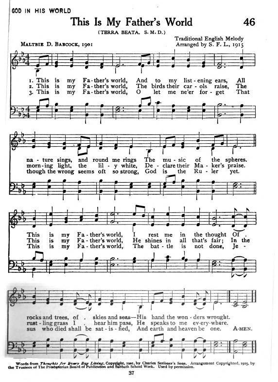 This is a copy of sheet music of "This is My Father's World," a Christian hymn published in "Hymnal for American youth" by Henry Augustine Smith (Century, 1919), pg. 37 [1]